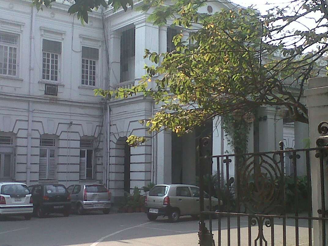 Calcutta Club in english Wikipedia